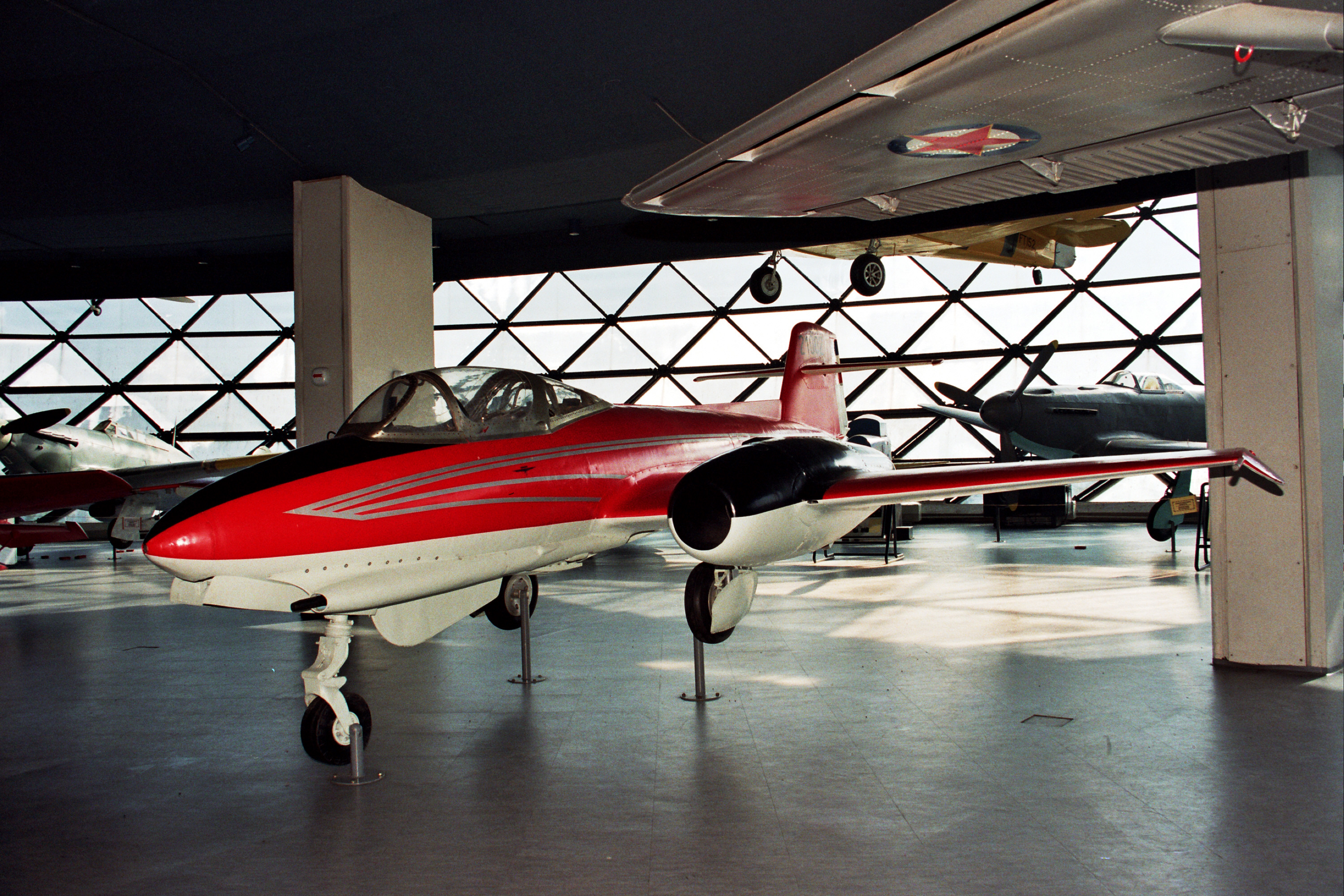 T-451-MM Strsljen II